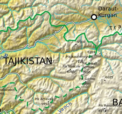 Map of part of the Pamir Mountains in Tajikistan, detail of existing Image:Pamir.svg